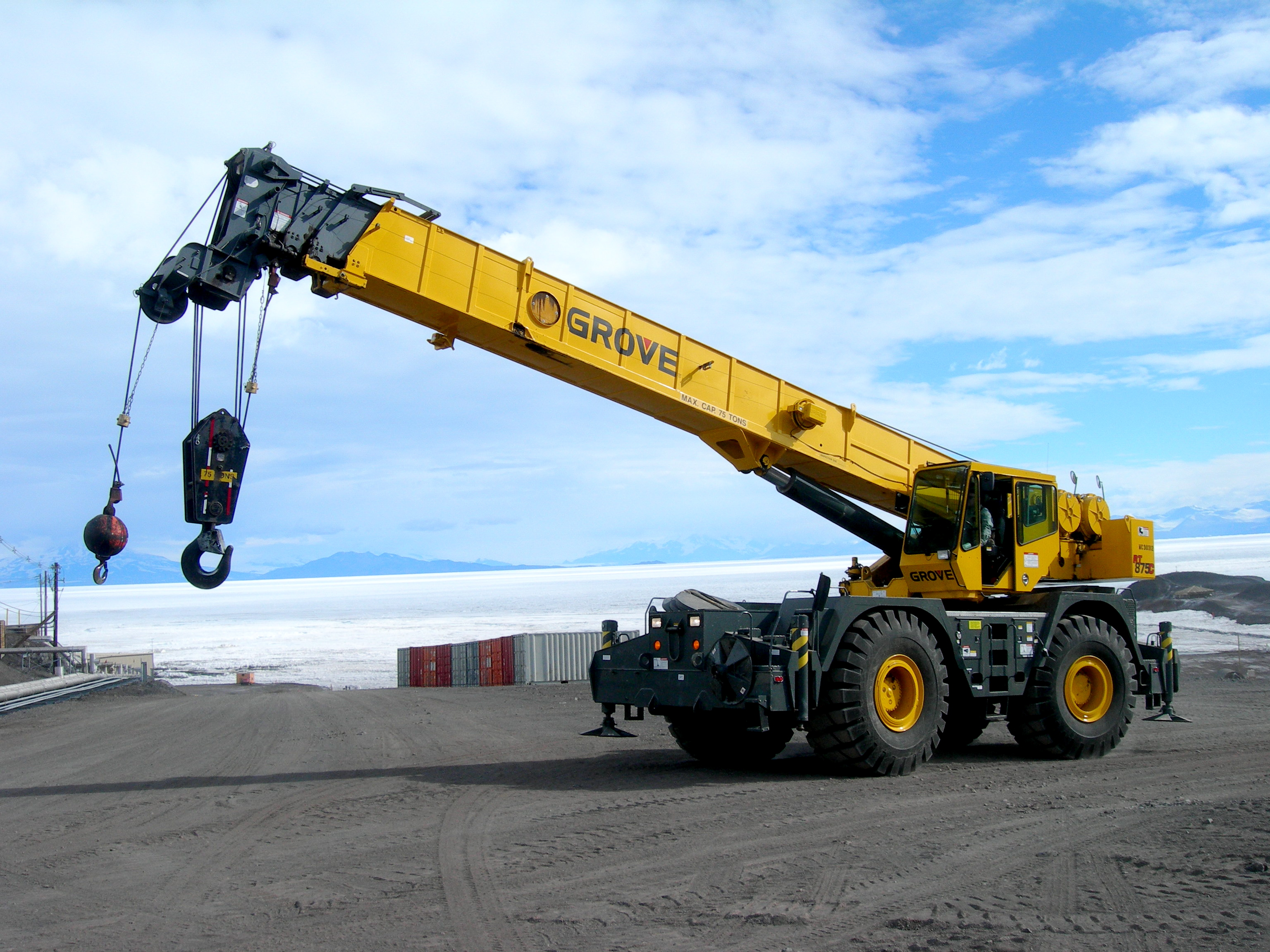 Grove Crane in Antarctica